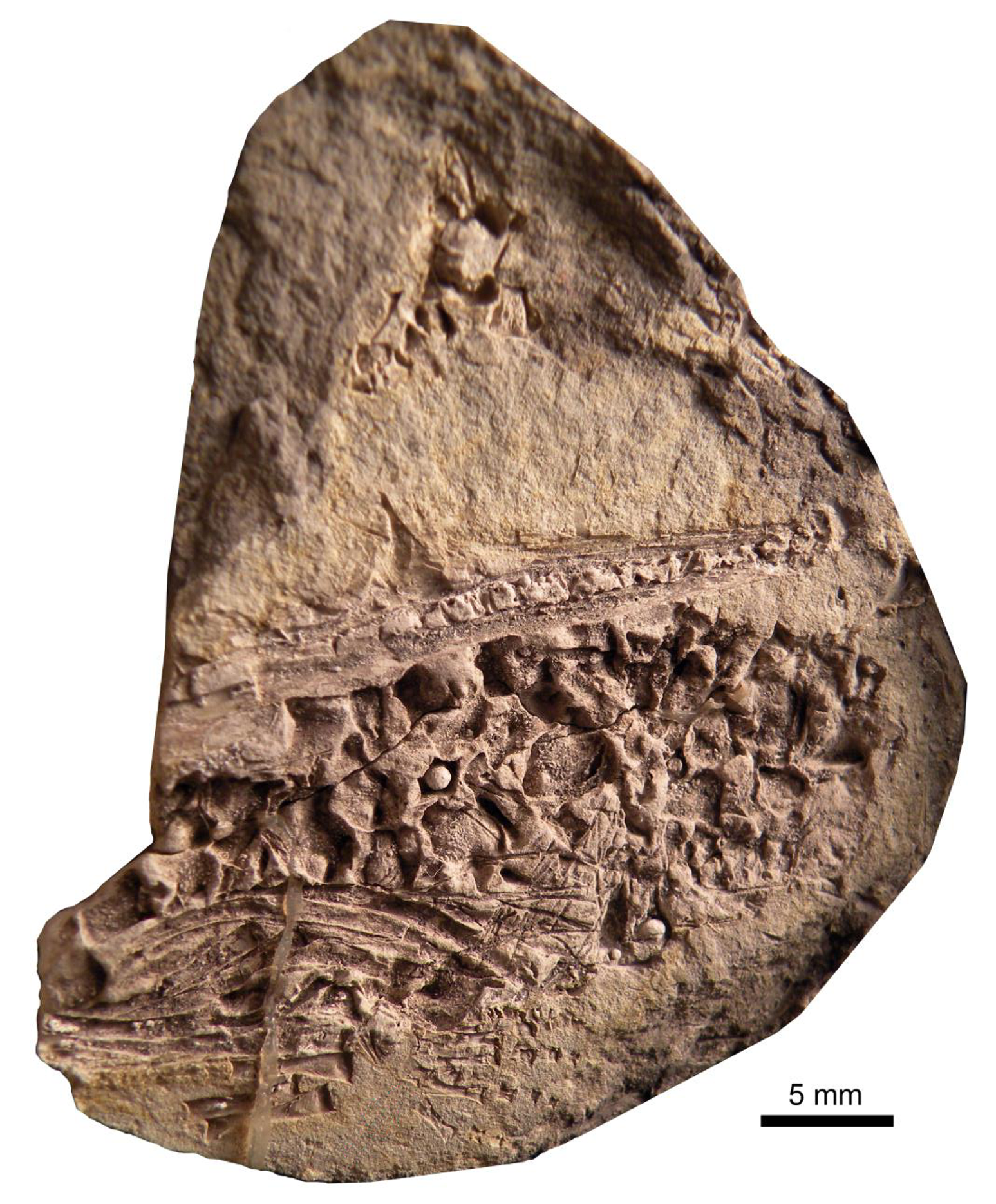 Text associated with the figure in the original publication (excerpt): The study of a large number of mesosaur specimens from Uruguay and Brazil has provided interesting information about the changes that take places during the ontogeny of the group. One of the most amazing discovering was an almost complete, very small and beautiful preserved specimen, which was interpreted as a non-hatched Mesosaurus (Piñeiro et al. 2012)[1], probably close to complete its development, although some indications of its foetal stage are clear: the porous and poorly ossified nature of the bones, the structure of the teeth, including uncomplete and bifurcated elements, the incipient development of the front limbs, particularly the hands, contrasting with the high size of the feet, which preserve what appears to be an astragalus, as the only tarsal element observed. This specimen consists therefore, the only evidence of reproduction in an early amniote and allows us to reconstruct the earliest stages of one of the most complete ontogenetic transition known for a basal component of the group.Note: According to Piñeiro et al. (2012)[1] this specimen (catalogue no. FC-DPV 2504) is an external mold, and according to Laurin & Pineiro (2017)[2] it comes from the Lower Permian Mangrullo Formation of Uruguay.